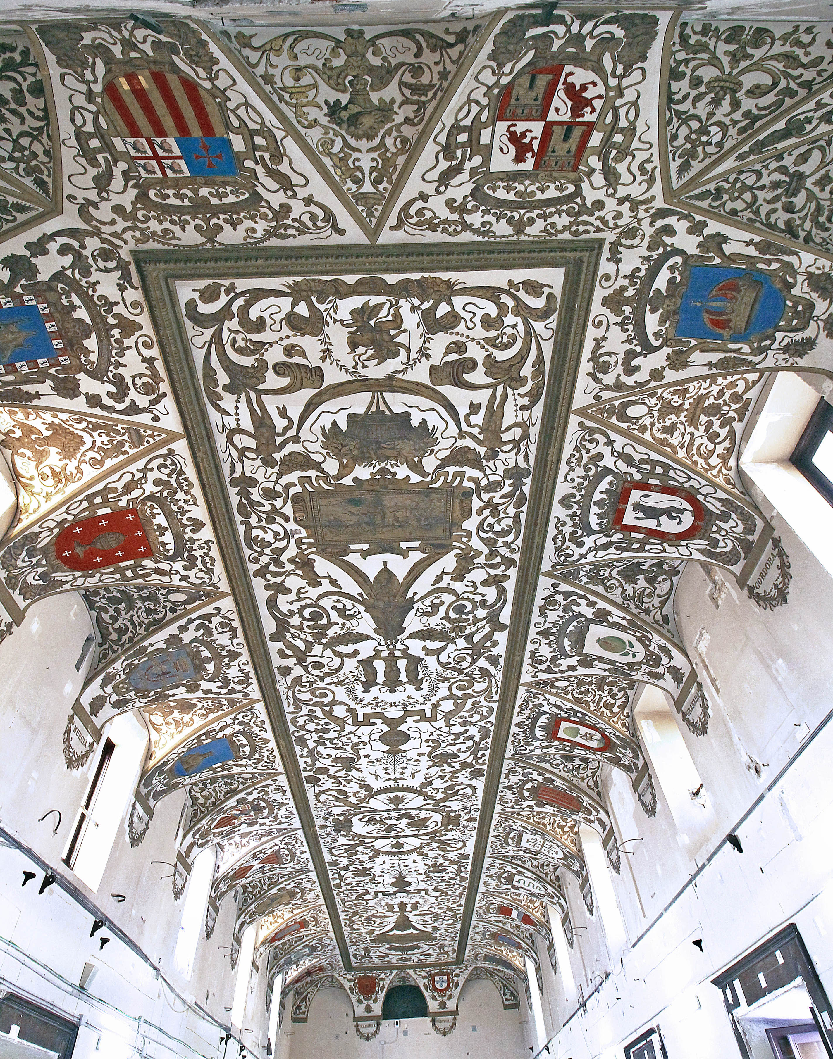 Painted ceiling at Salón de Reinos in Madrid (Spain).